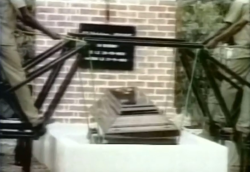 Melchior Ndadye's casket is lowered into its grave